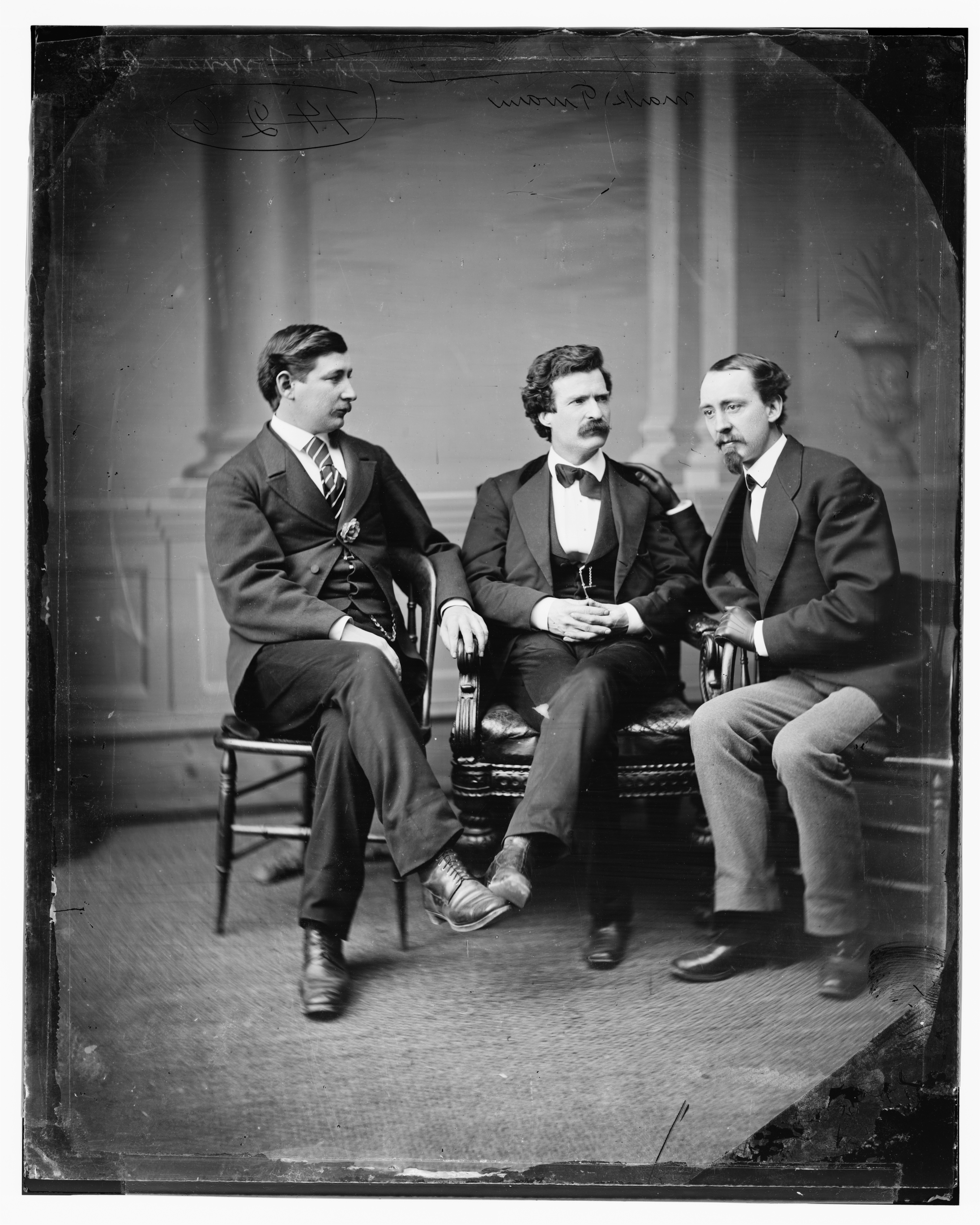 Group photo portrait of author and humorist Mark Twain (a.k.a. Samuel L. Clemens; middle), noted American Civil War correspondent and author George Alfred Townsend (left), and David Gray, editor of the Buffalo Courier (right).